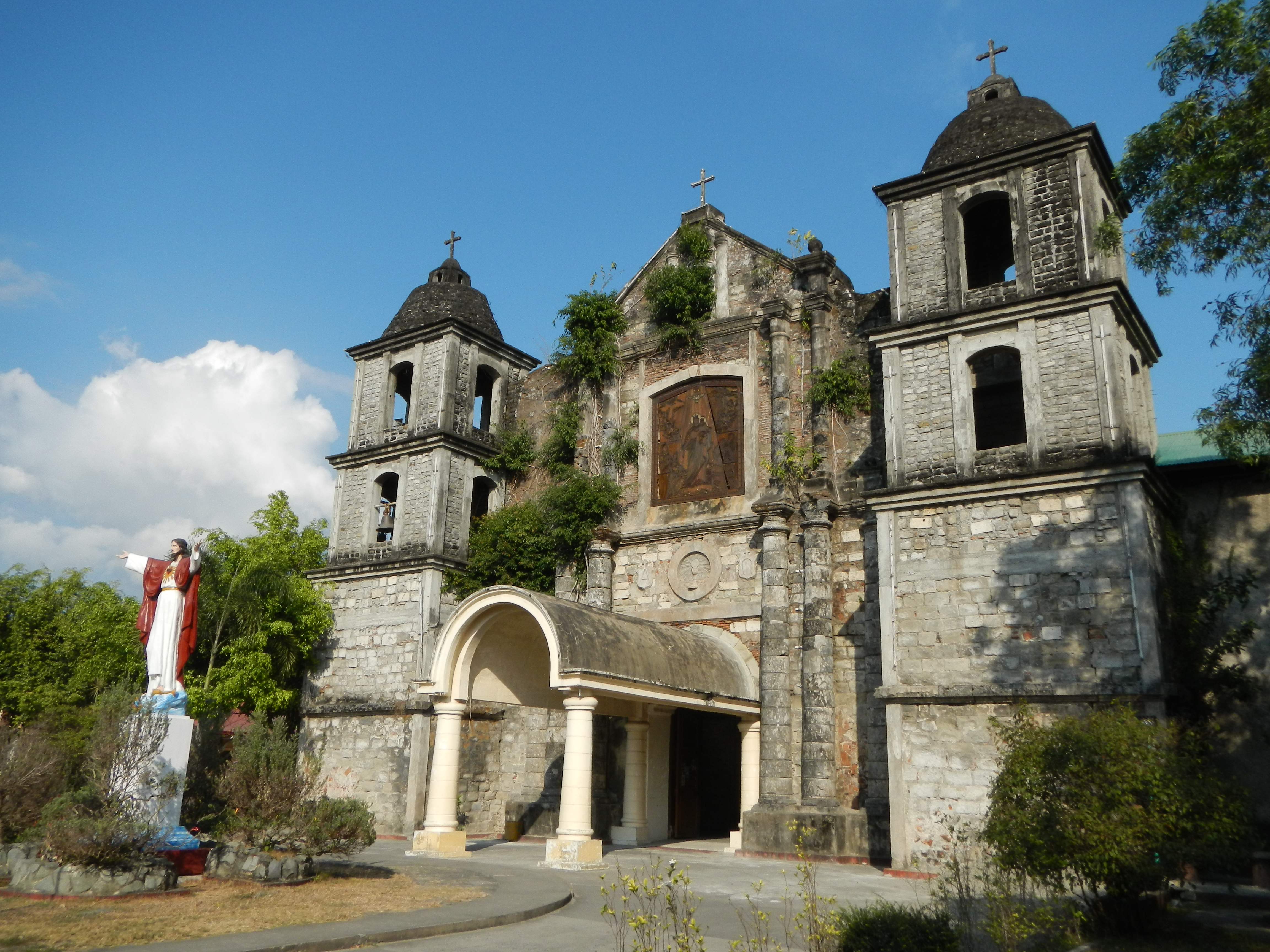 Photos of the Cultural Heritage Philippine treasure, ageless - Saint Michael the Archangel Parish Church (Bacnotan, La Union) Town Proper of Bacnotan, La Union of the Roman Catholic Diocese of San Fernando de La Union.